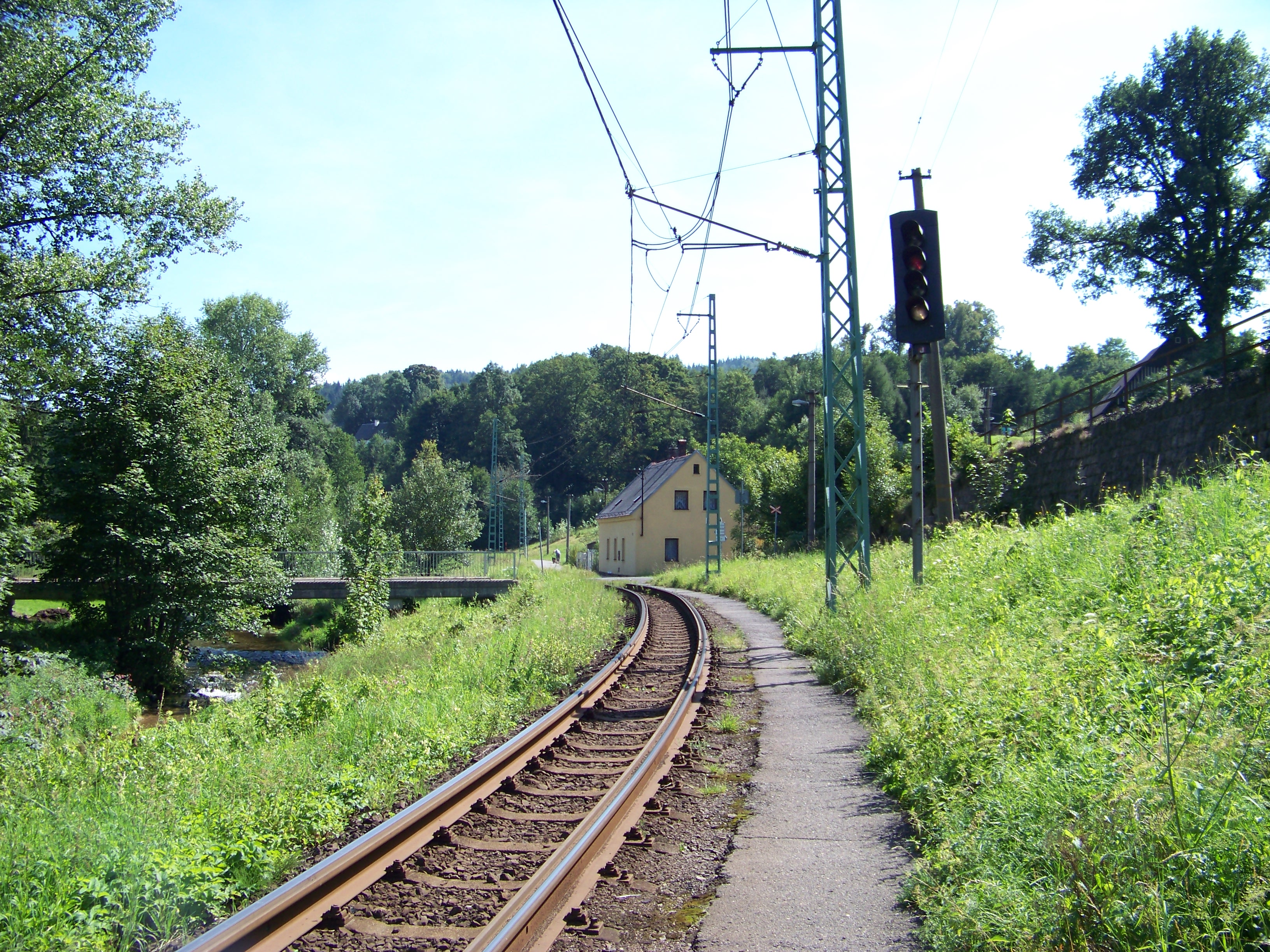 Liberec XXX-Vratislavice nad Nisou, Liberec District, Liberec Region, the Czech Republic. Tram signals at the stop "Proseč nad Nisou, škola".